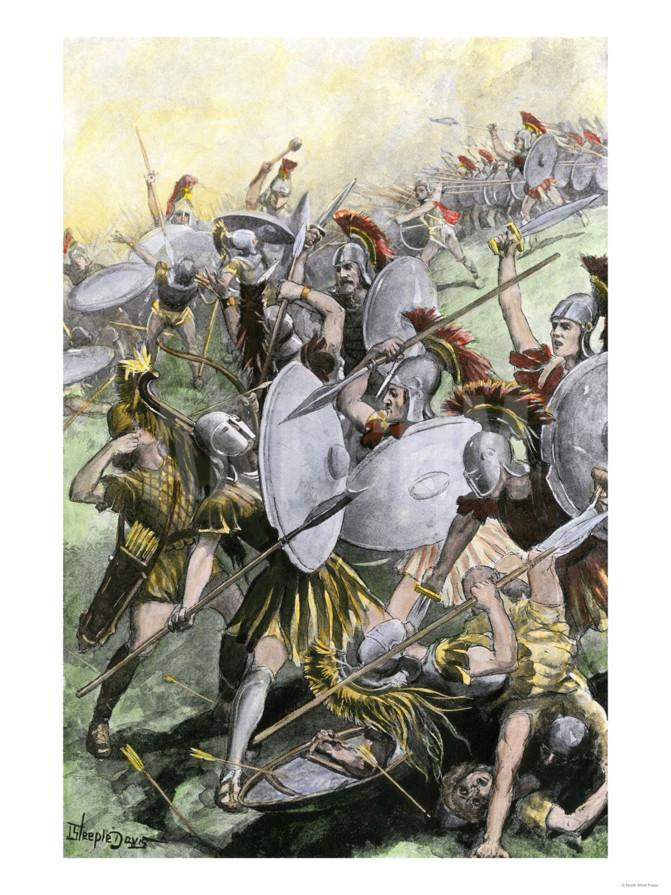 Destruction of the Athenian army at Syracuse, 413 BC. Hand-colored halftone reproduction of a 19th-century illustration